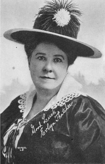 Photo of silent screen actress Eva Thatcher.